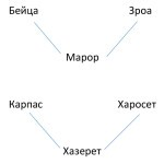 Passover Seder plates